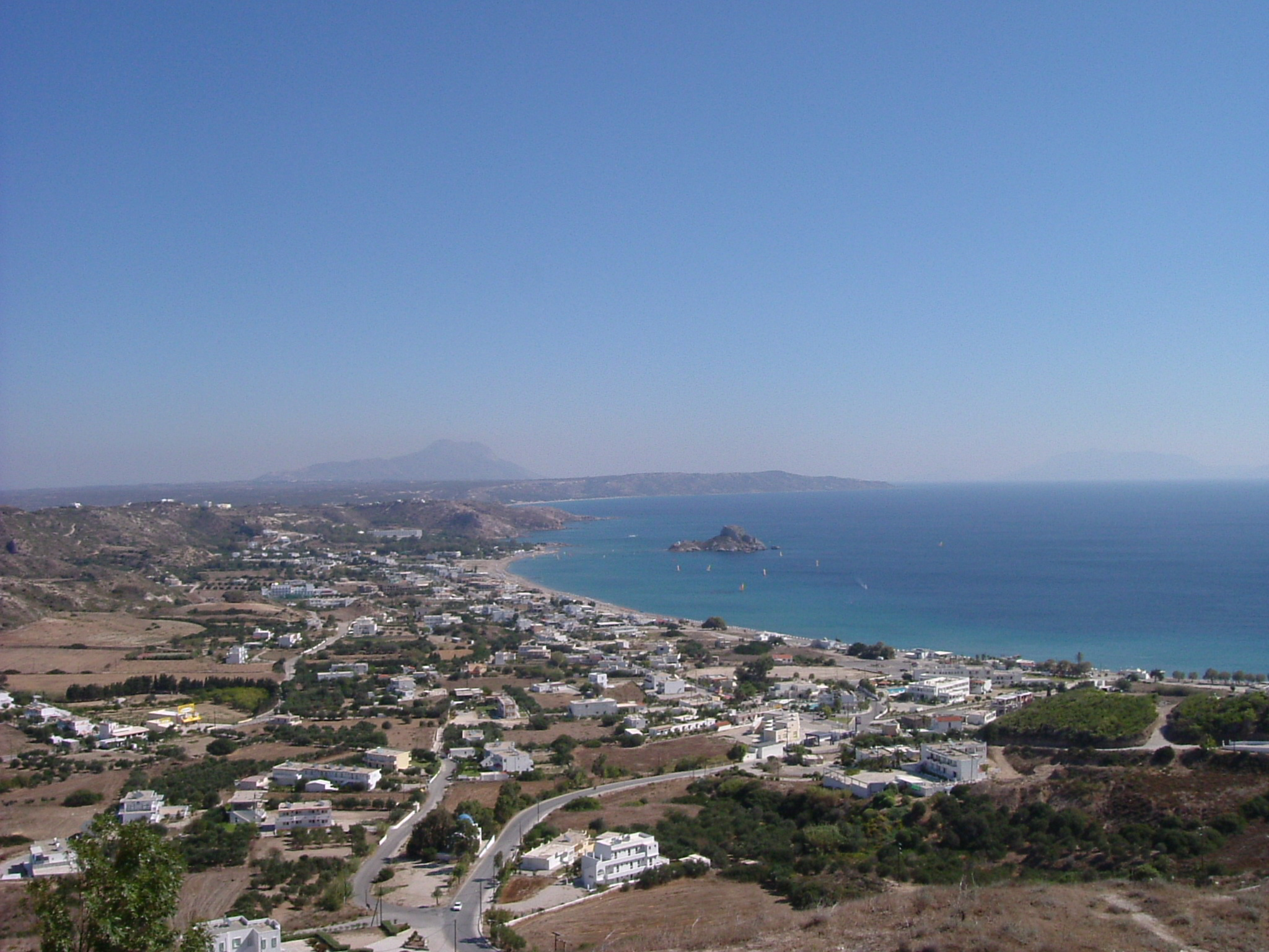 Aerial view of Kefalos